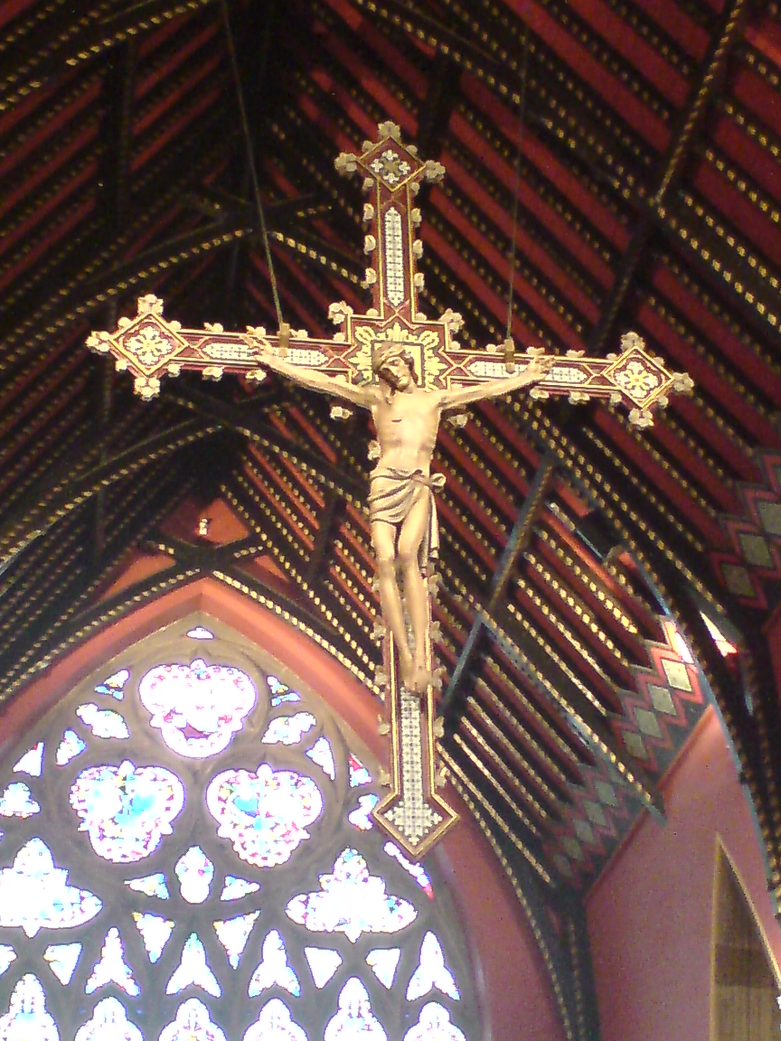 Crucifix, St Mary's Roman Catholic Cathedral, Newcastle upon Tyne, England.